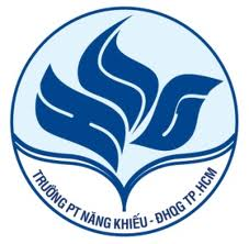 High School For The Gifted Logo